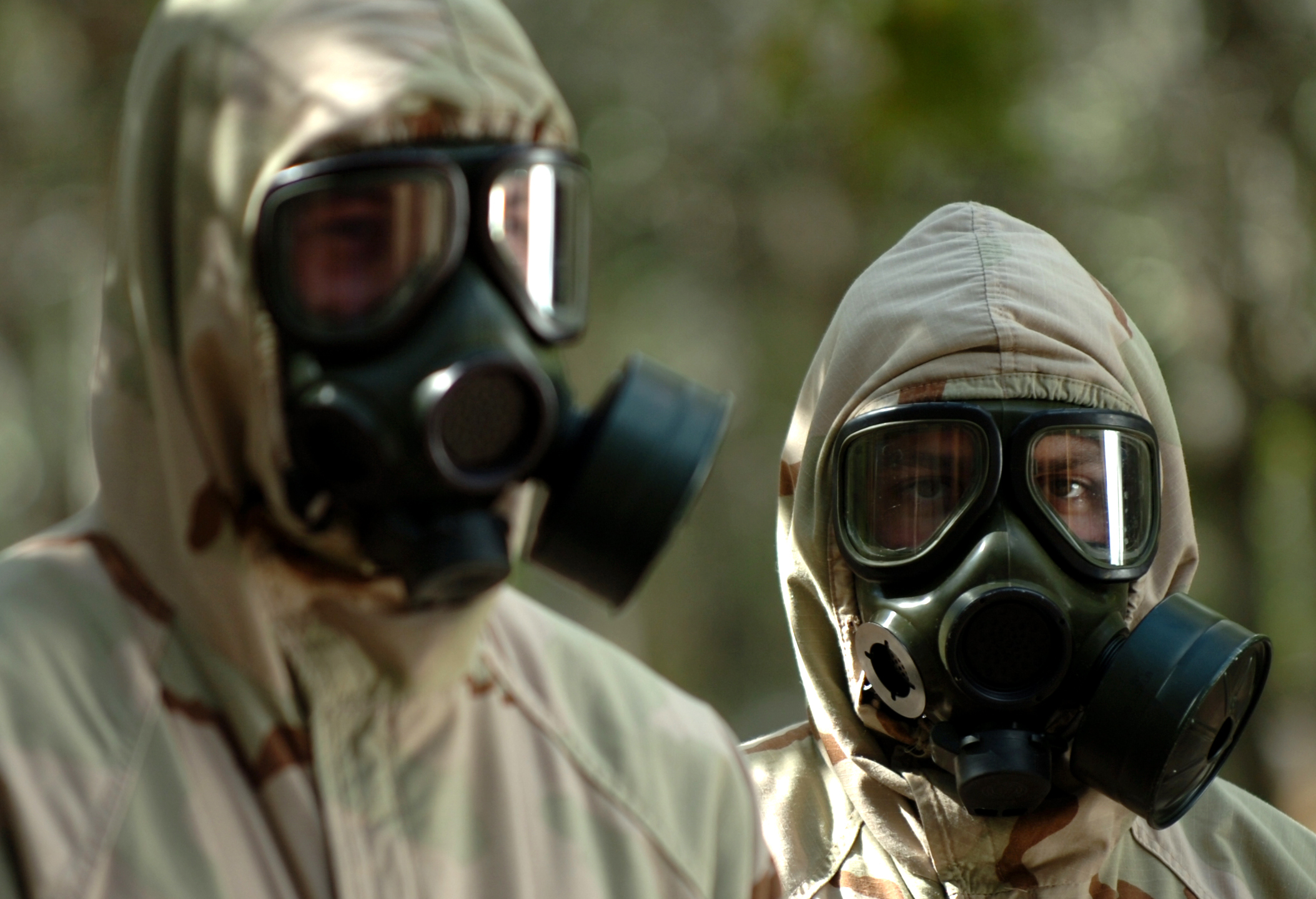 Eglin, Fla. (Oct. 31, 2006) - Students in the chemical, biological and radiological phase of training at the Naval Explosive Ordnance Disposal School don full protective gear and are taught to maneuver around hazardous material without spreading the contamination. Having trained physically and mentally for more than a year, the newest EOD members are ready to become a part of EOD’s tradition of saving lives and protecting property. U.S. Navy photo by Mass Communication Specialist 2nd Class Jayme Pastoric (RELEASED)